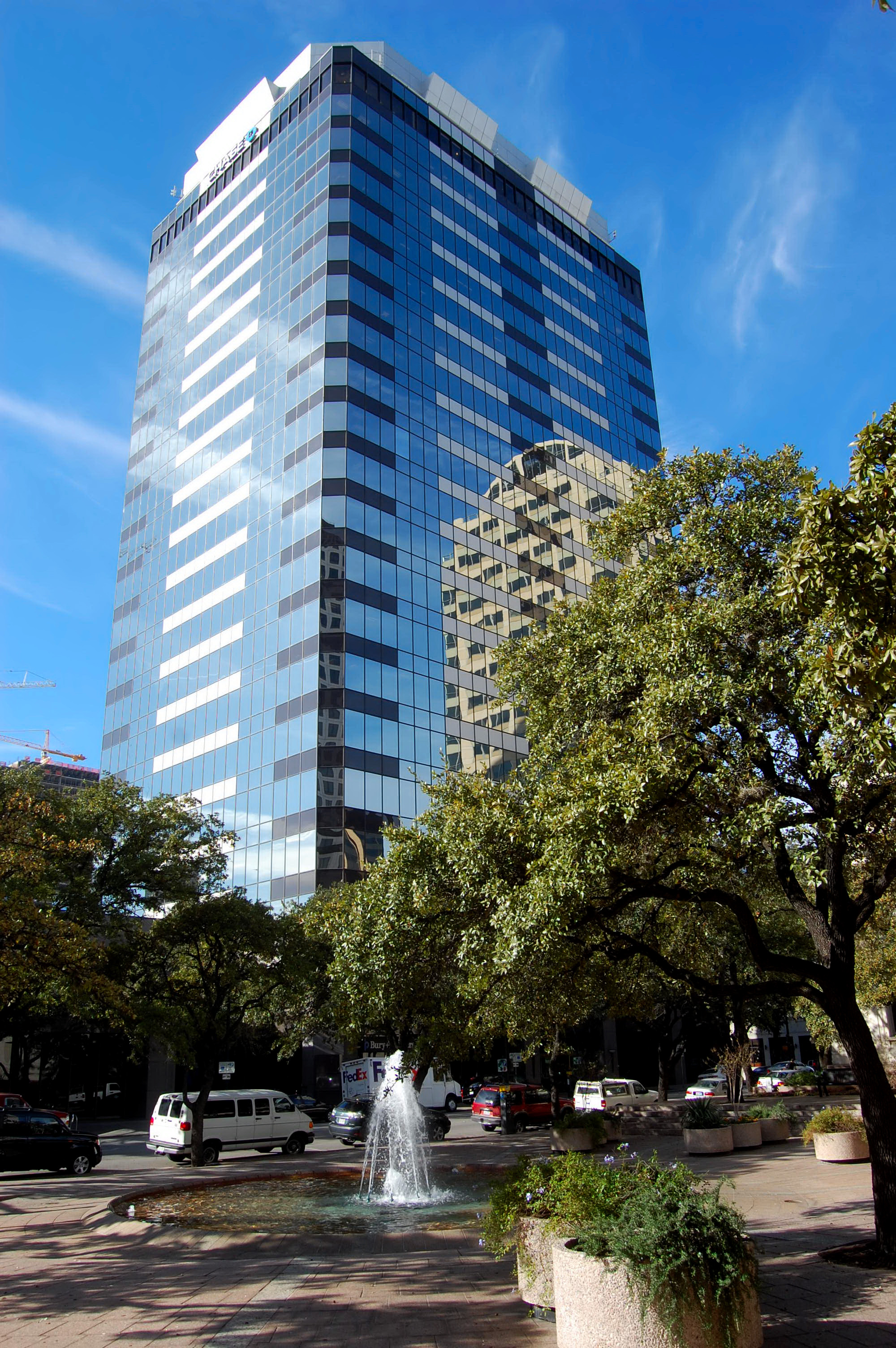 Chase Bank Tower in Austin, Texas